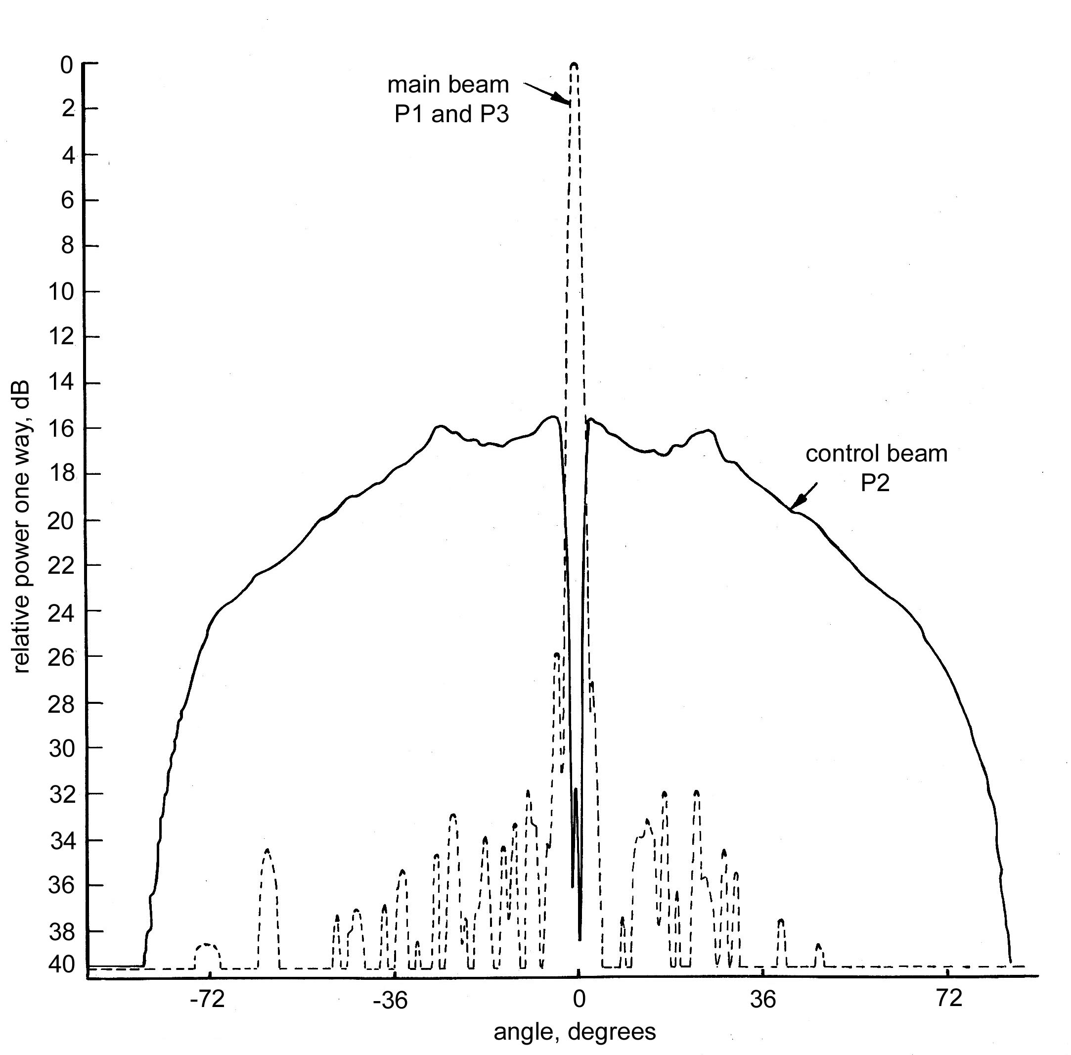 Secondary surveillance radar antenna patterns for inclusion in the Wikipedia file Secondary Surveillance Radar